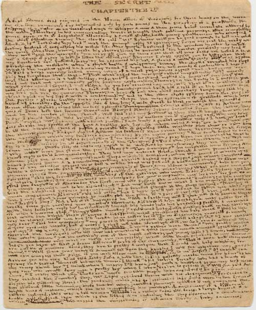 Page one from Charlotte Bronte's MS "The Secret"